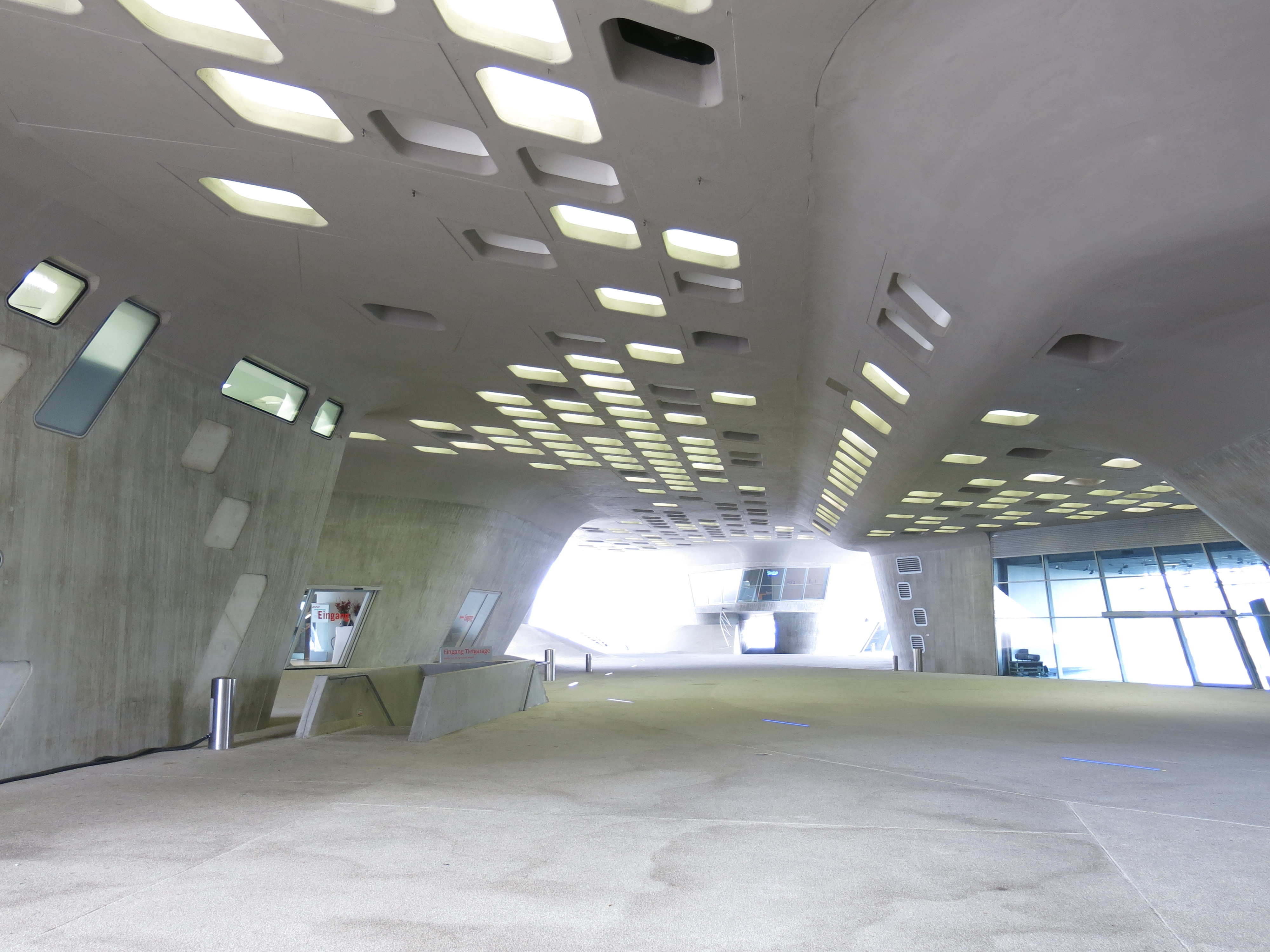 underneath the phaeno, Wolfsburg, Germany